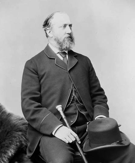 Portrait of Lord Stanley of Preston.